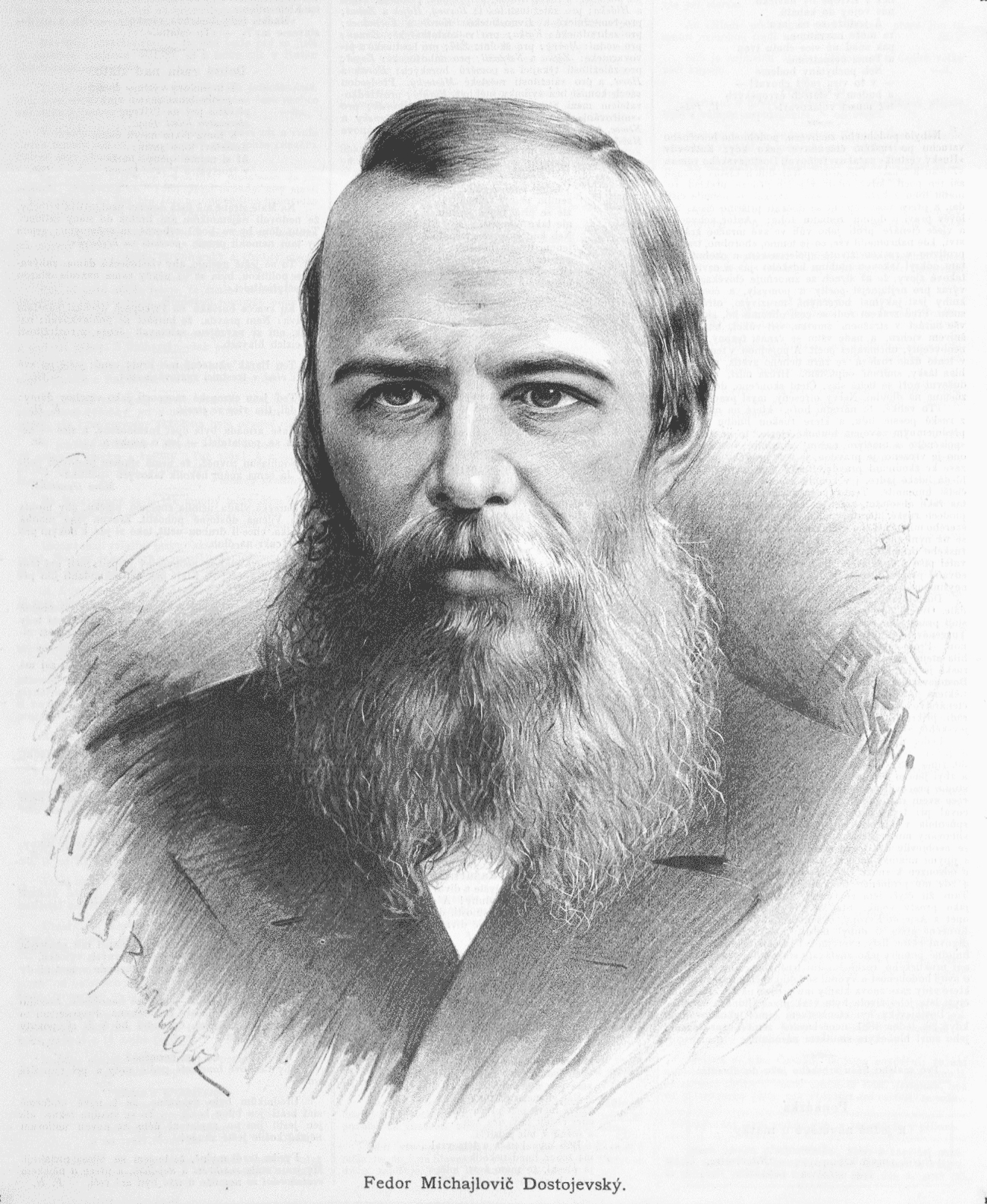 Fyodor Mikhailovich Dostoevsky (1821-1881), Russian writer.